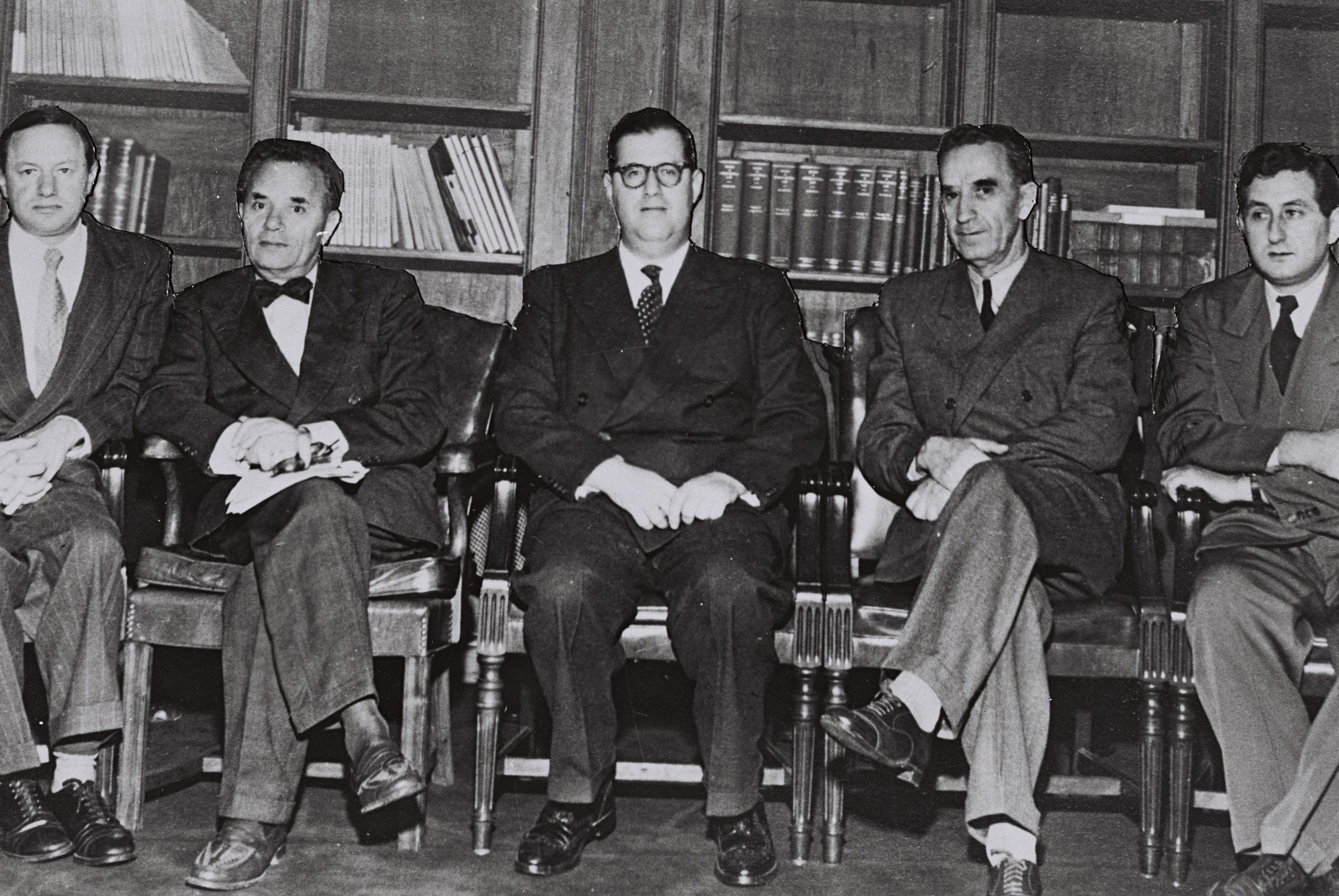 (original description) Israel delegation to UN. L-R: A. Lourie, consul genl.; Dr. J. Robinson, counsellor; A. Eban, envoy extraord; Dr. A. Katzenelson, Mins. of Health; G. Rafael, For. Affairs.